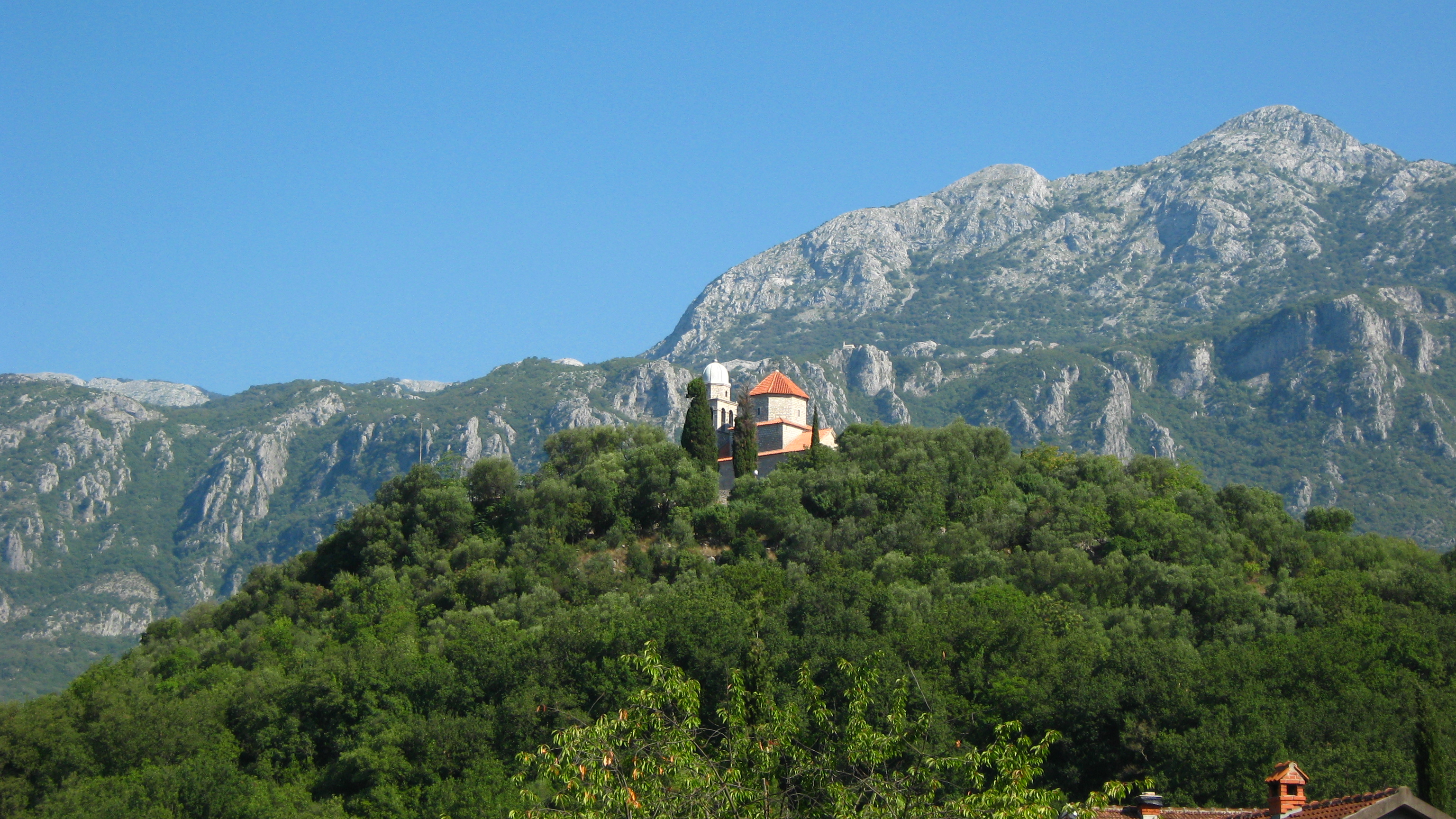 Holy trinity church in Zelenika, MNE